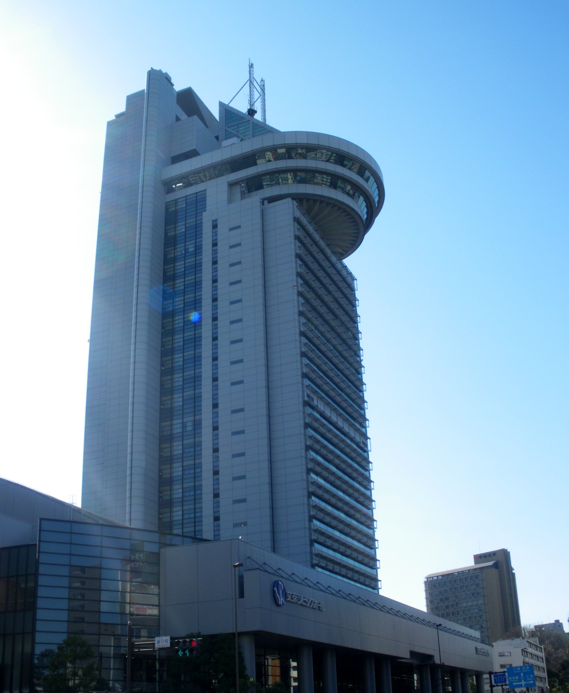 A photo of Bunkyo Civic Center(Bunkyo city office). It has 28 stories.It is located in Bunkyo-ku,Tokyo.Japan.